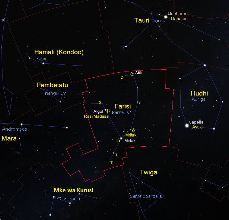 Constellation Perseus as seen from Tanzania, Swahili labelled Kiswahili: Kundinyota Farisi (Perseus) jinsi inavyoonekana kutoka Tanzania, majina kwa Kiswahili